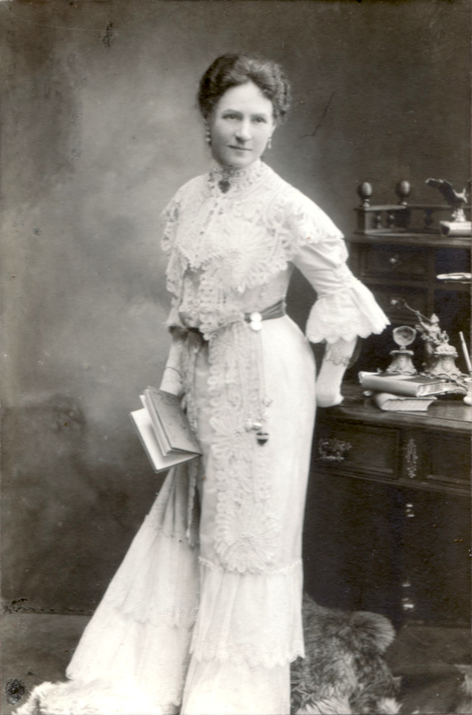 Portrait of the Bavarian dialect poetess